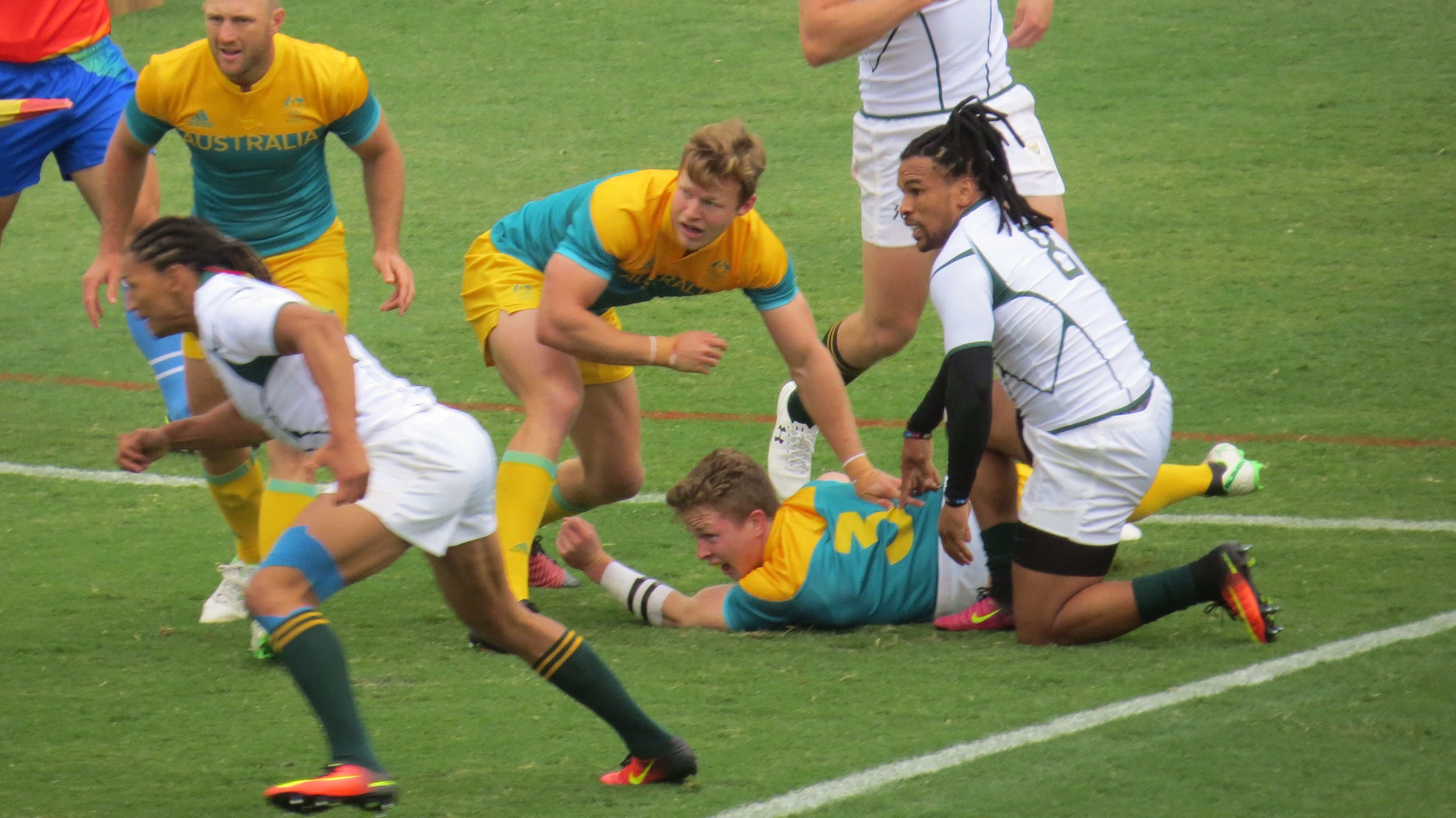 Rio 2016. Rugby 07